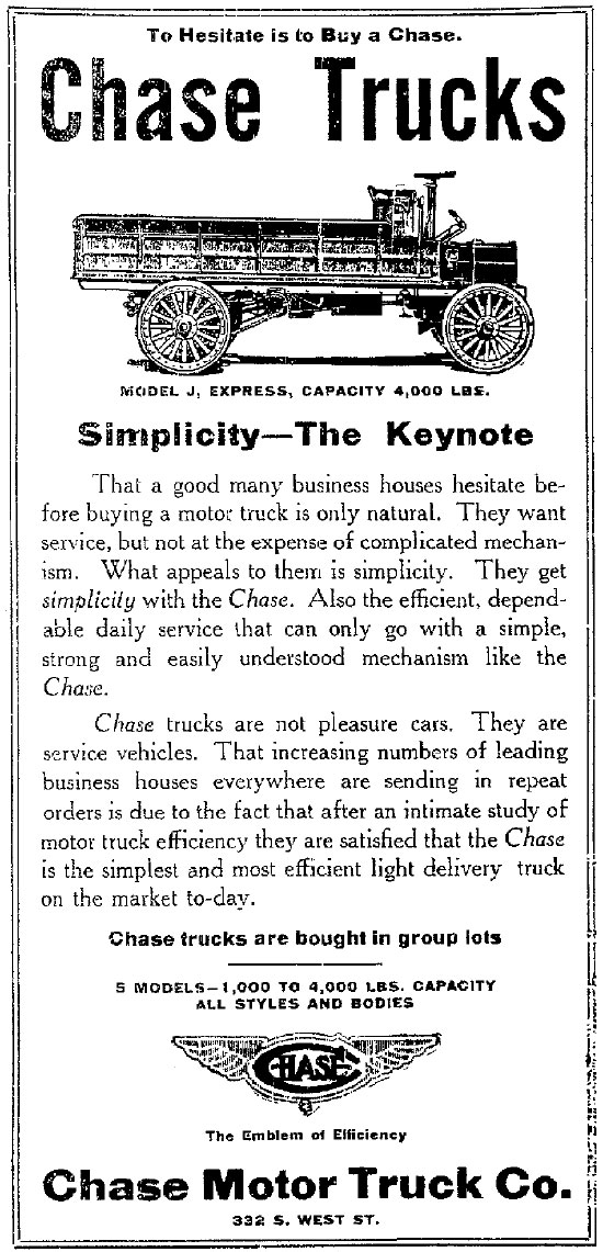 Chase Motor Truck Company - advertisement 1912 - Syracuse, New York